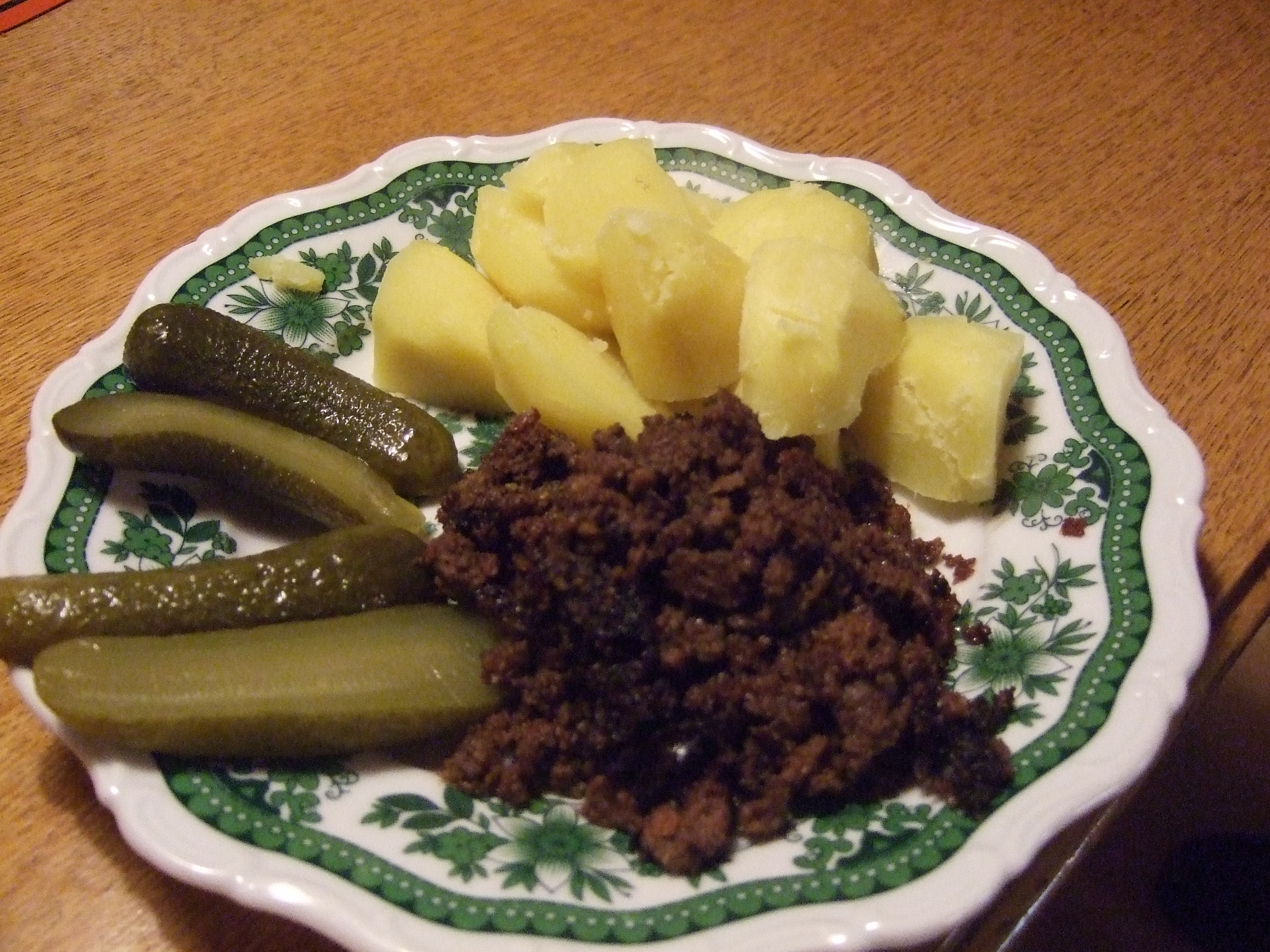 Weckewerk